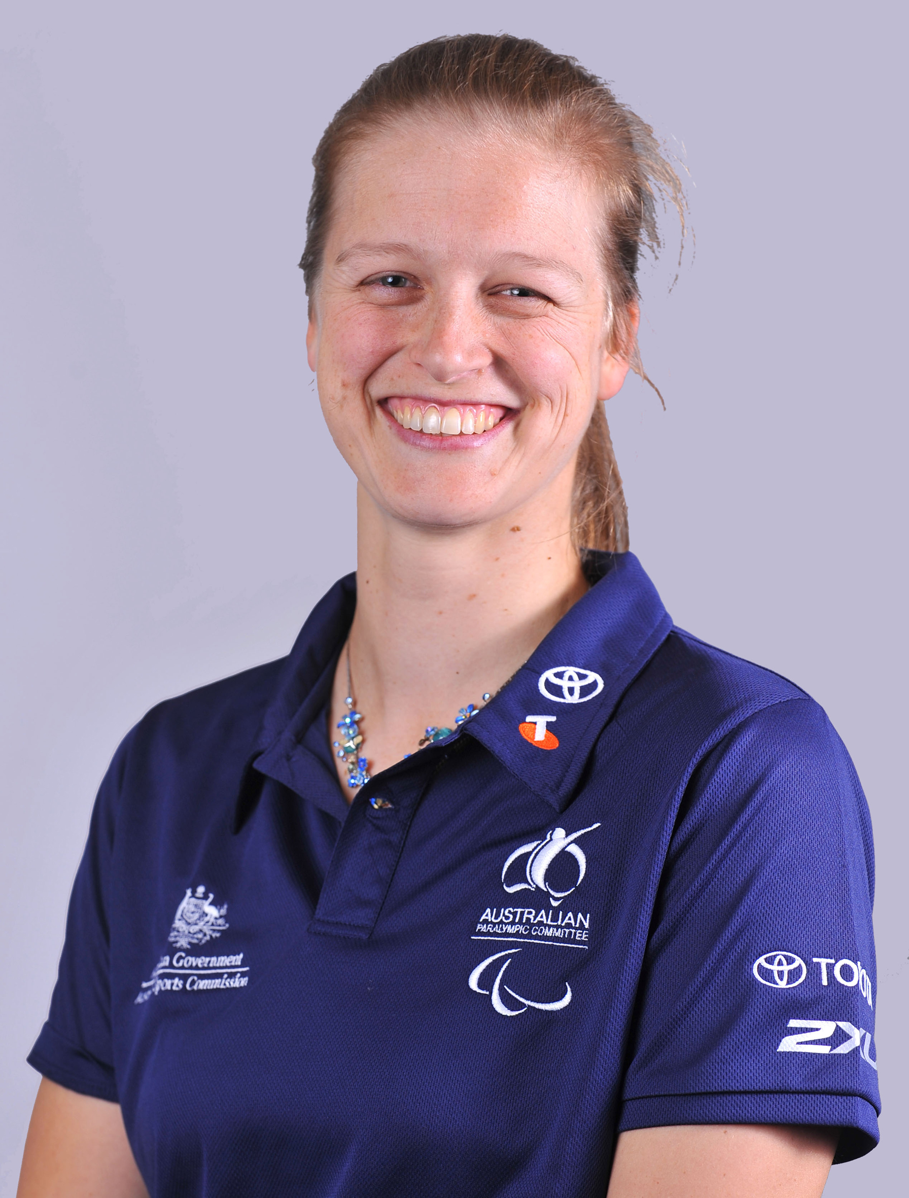 Portrait of Australian wheelchair basketballer Sarah Stewart, 2012 Australian Paralympic (shadow) Team athlete